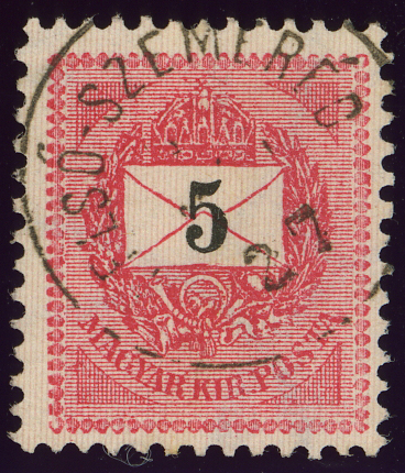 Kingdom of Hungary 5 krajczar stamp, 1888 issue, cancelled FELSÖ-SZEMERED (Slovakia).